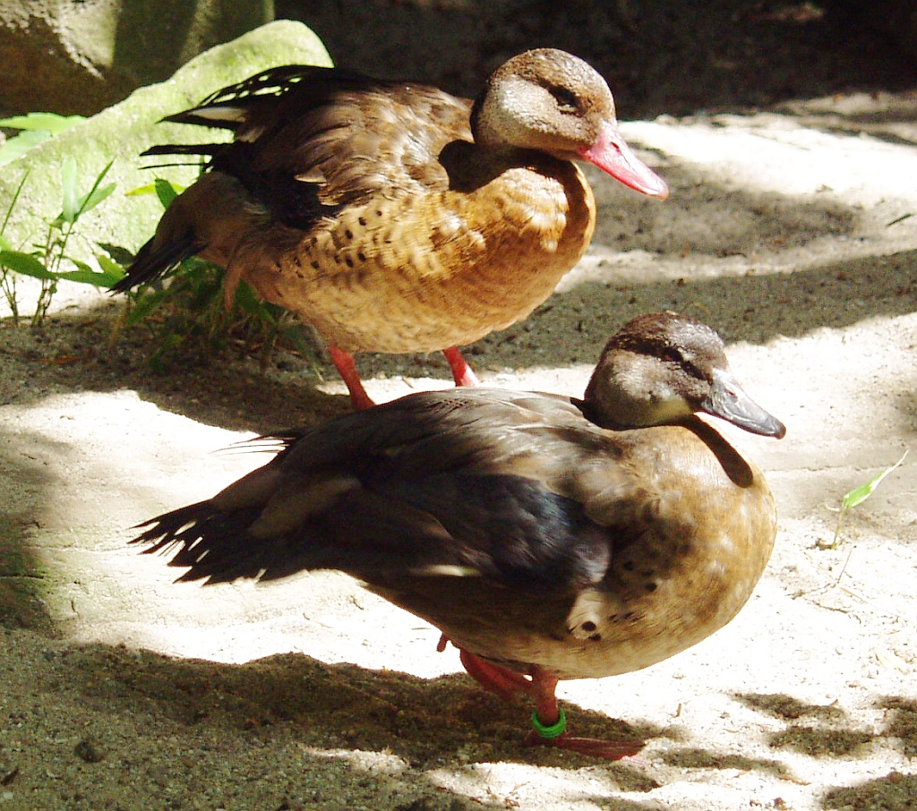 Brazilian Duck (Amazonetta brasiliensis) at Zoo Duisburg, Germany